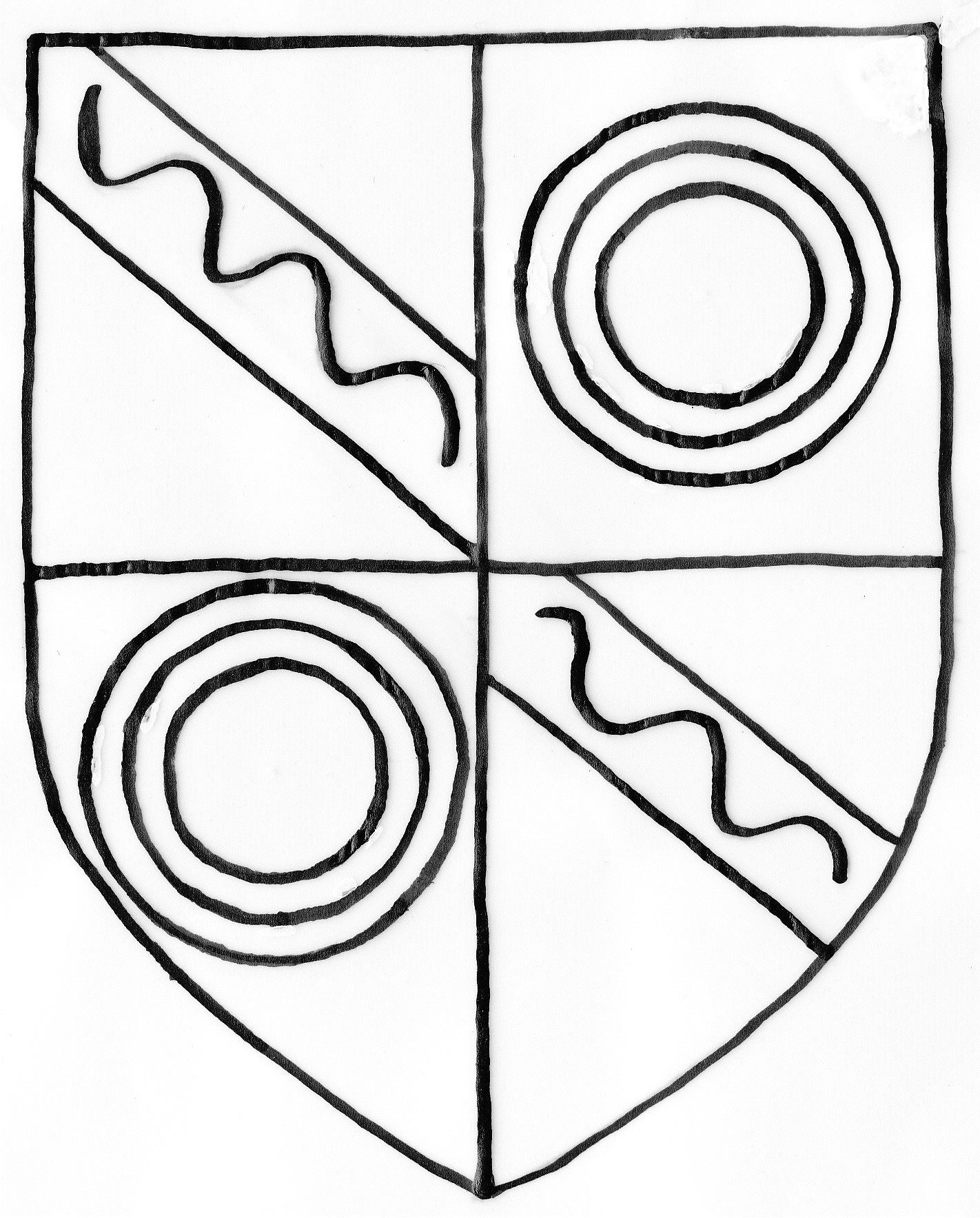 The armorial of the Childrey family: "Quarterly 1st & 4th on a bend a riband wavy 2nd & 3rd 3 annulets one within the other". Isabel Childrey was the wife of Sir Maurice Russell (2 February 1356 – 27 June 1416), one of the High Sheriffs of Gloucestershire.